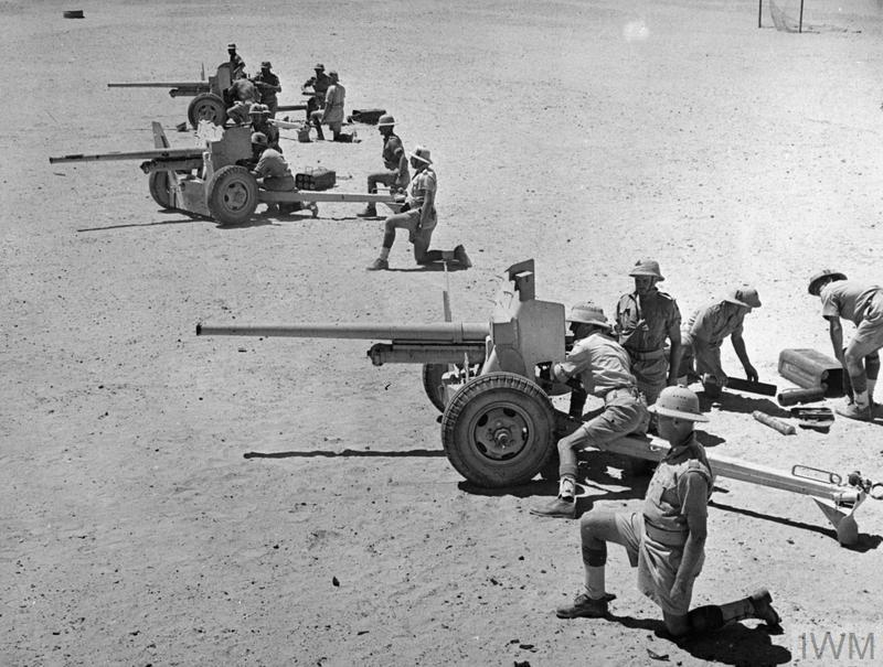 6TH SOUTH AFRICAN ARMOURED DIVISION IN TRAINING IN THE MIDDLE EAST, 2 SEPTEMBER 1943 6-pdr anti-tank guns in action on the range.